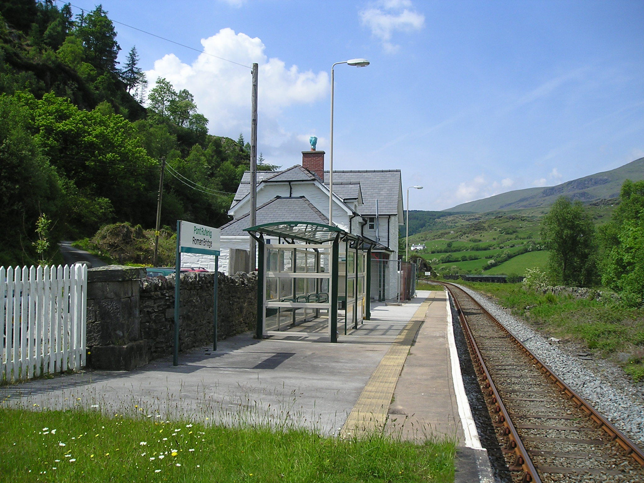 made by me Noel Walley